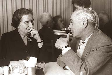 Israeli Foreign Minister Golda Meir with former Minister of Defense, Pinhas Lavon. Česky: Izraelská ministryně zahraničních věcí Golda Meirová a bývalý ministr obrany Pinchas Lavon.